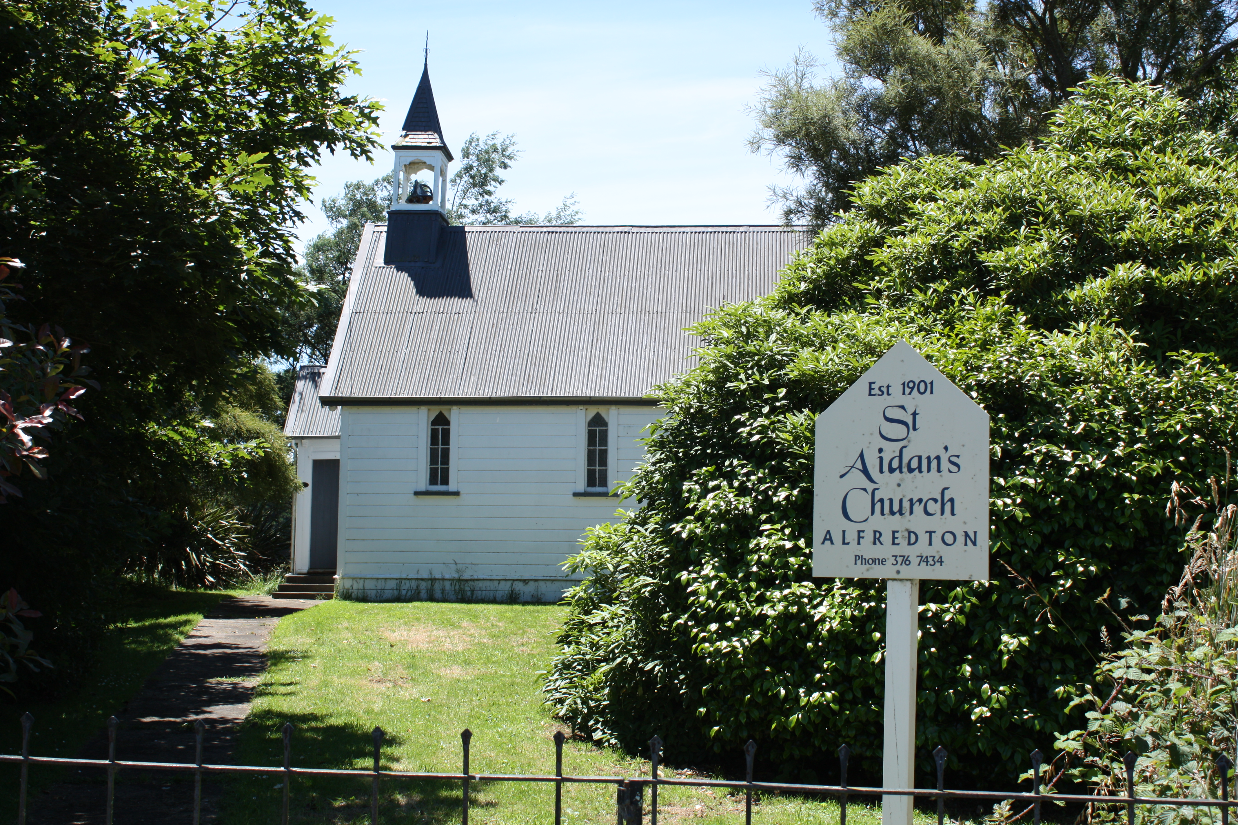 Another country place of worship west of Eketahuna at the small settlement called Alfredton. St Aidan's Church is registered by the New Zealand Historic Places Trust as a Category II structure, with registration number 3972.